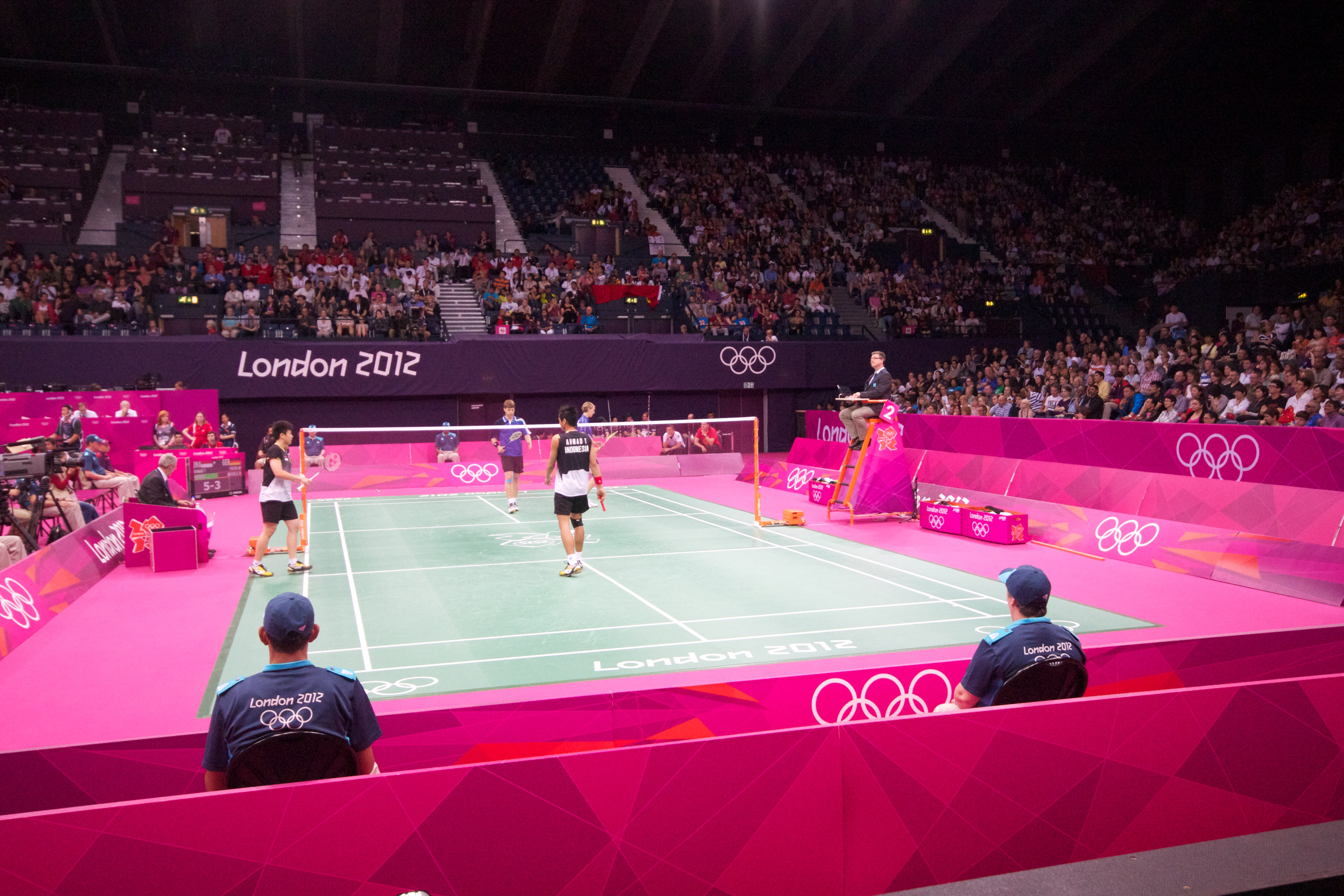 Badminton at the 2012 Summer Olympics